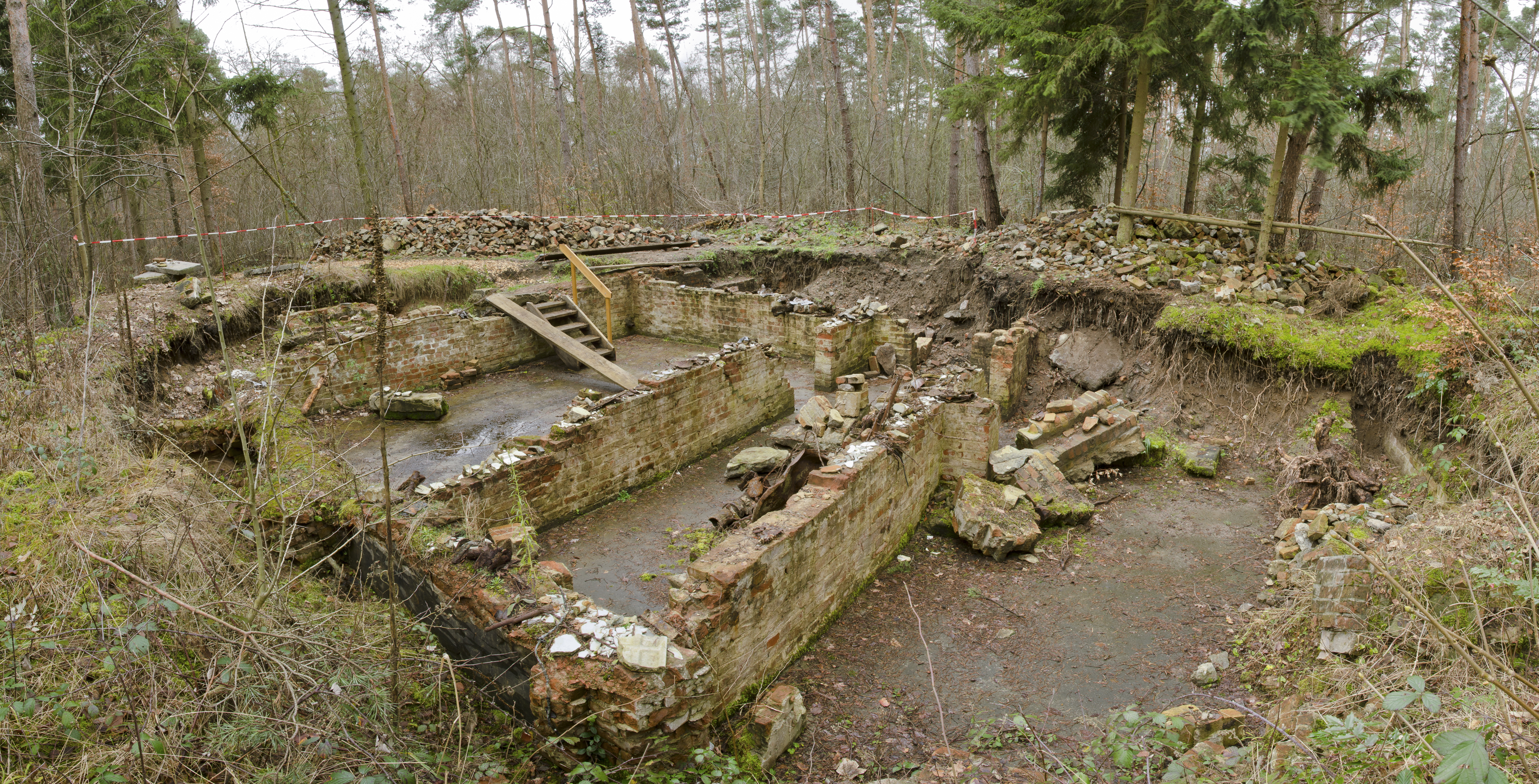 Remains of the former cellar of the kitchen barrack - labour camp Walldorf / Frankfurt Airport - Outpost of the concentration camp Natzweiler-Struthof. In use from August until December 1944. Up to 1700 Hungarien jewish women were detained in the camp for forced labour on a runway construction site of the company Züblin at the Frankfurt Airport. About 50 women didn't survive this time period of 4 months. From the remaining women, only about 300 survived further deportation and the holocaust.